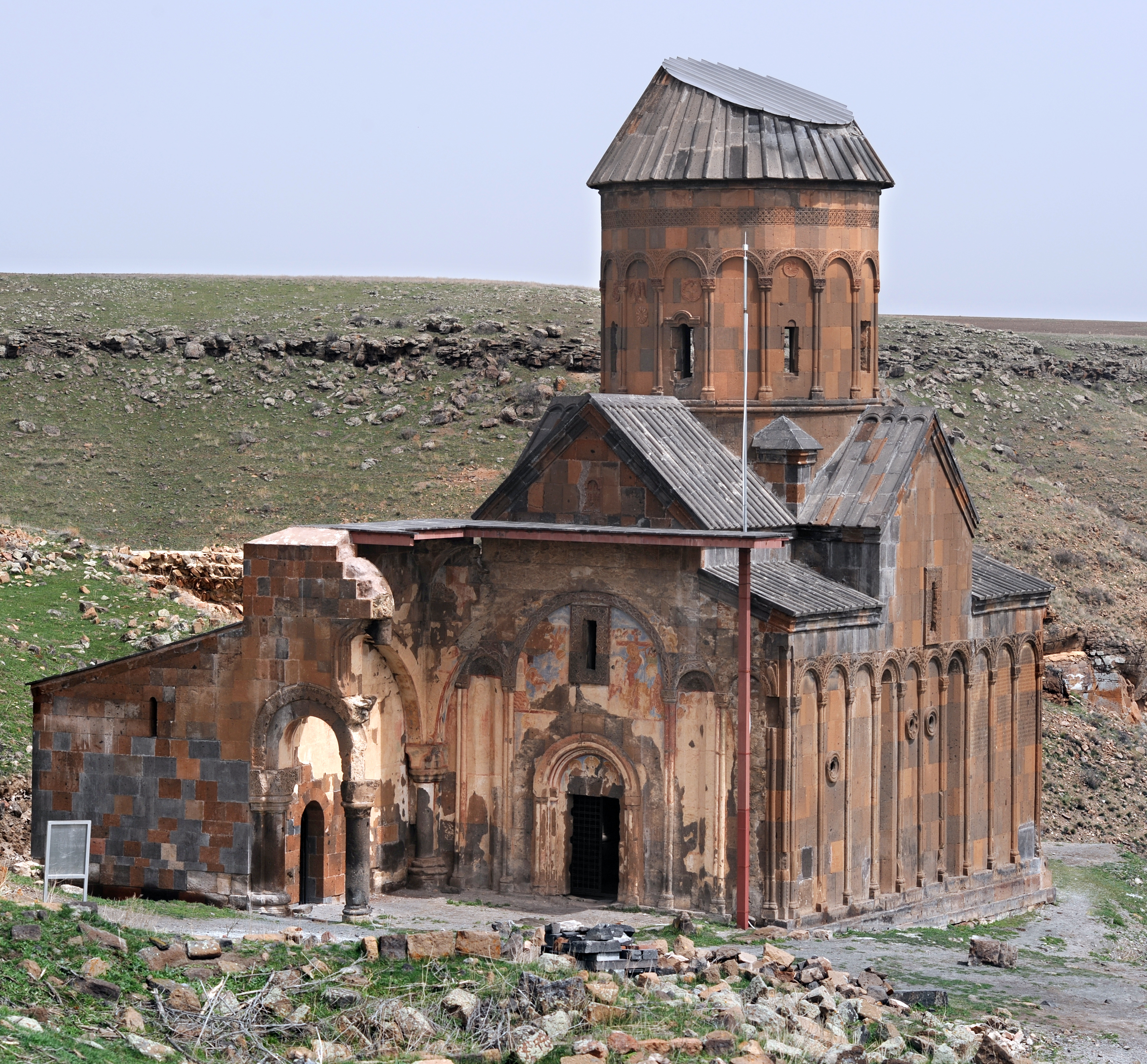 Church of Saint Gregory of Tigran Honents, Ani, Turkey.